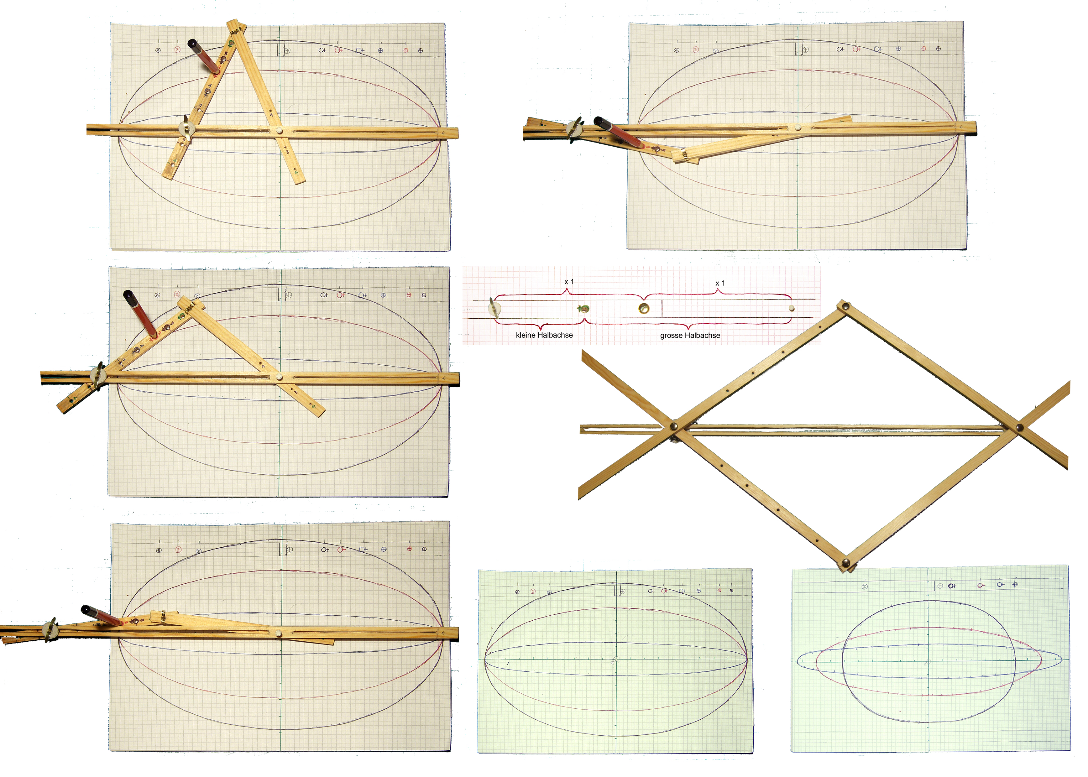 ellipse compass geometry draw tool